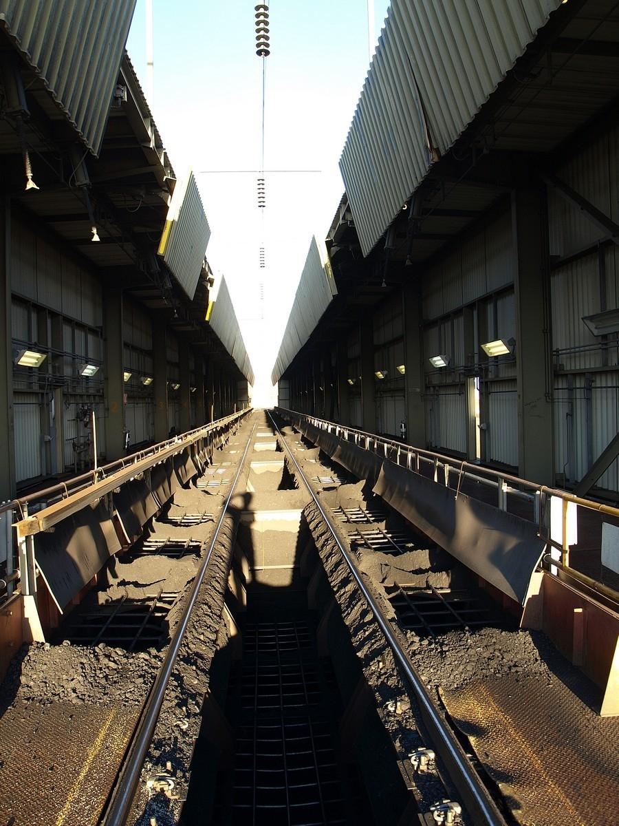 Looking in through the enclosure above the BM&LP railroad track hopper at the Navajo Generating Station near Page, Arizona. Bottom-dump rail cars drop their coal into the hopper below the tracks as they pass over it.